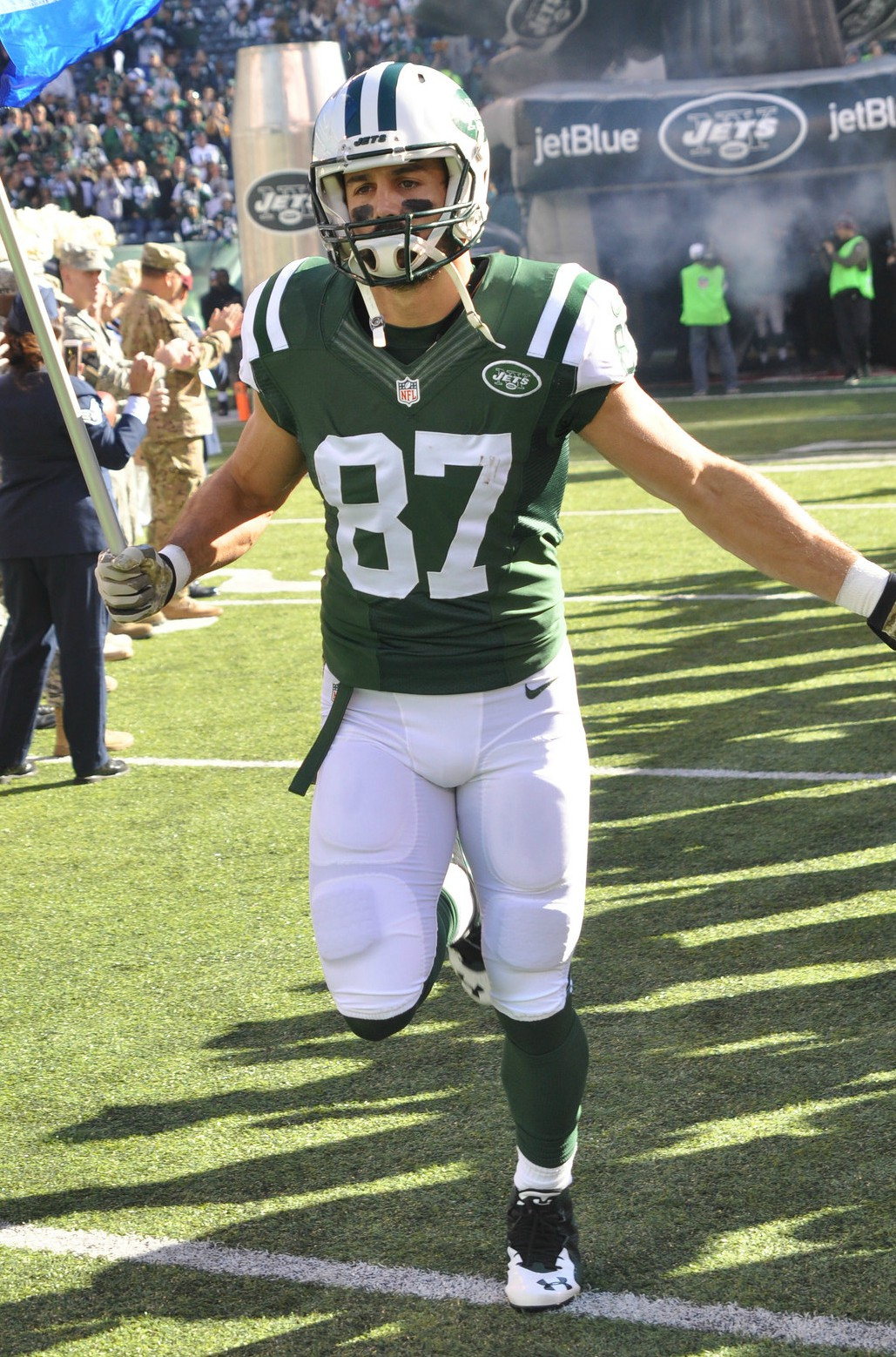 New York Jets Wide Receiver, Eric Decker, in a game against the Jacksonville Jaguars on November 8, 2015.